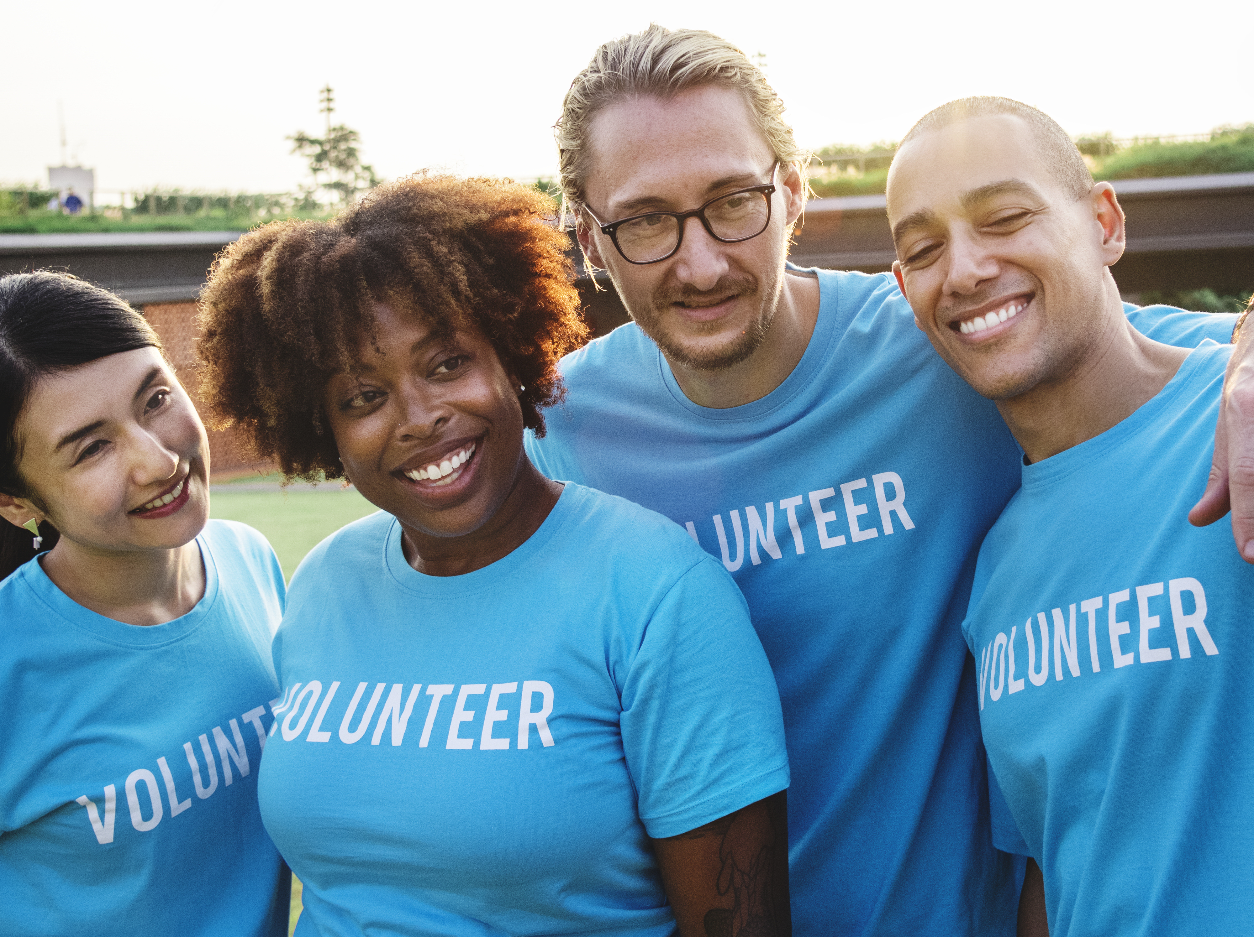 Group of happy and diverse volunteers